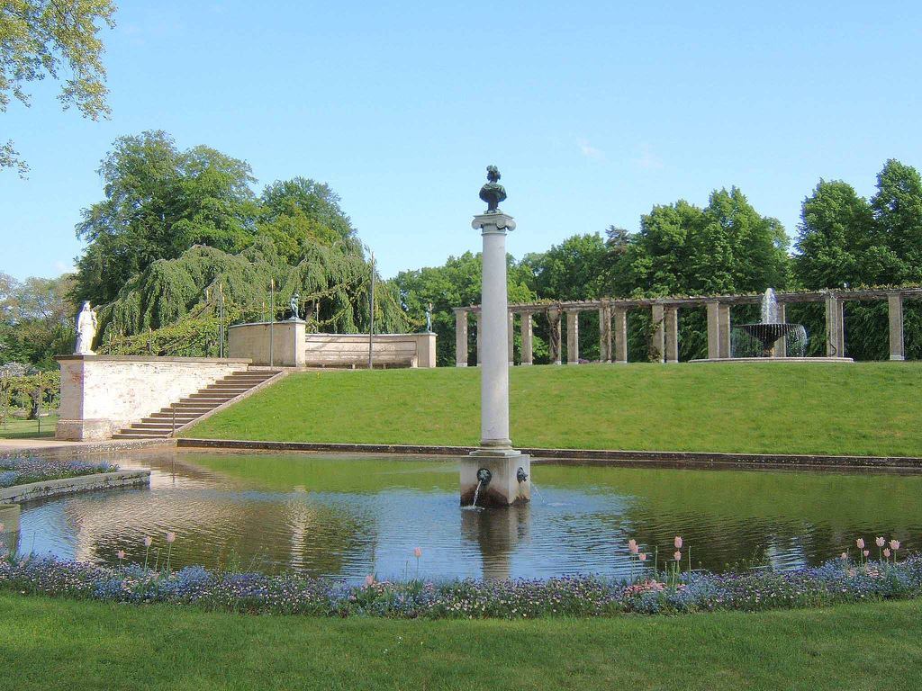 Park Sanssouci Charlottenhof